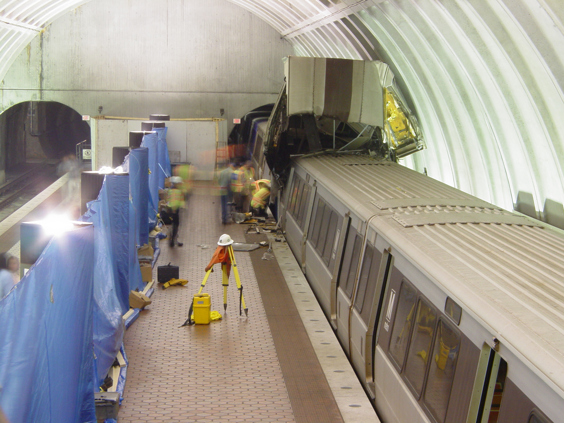 The November 3, 2004 accident at the Woodley Park-Zoo/Adams Morgan station as seen the next day, November 4, 2004, from the mezzanine.